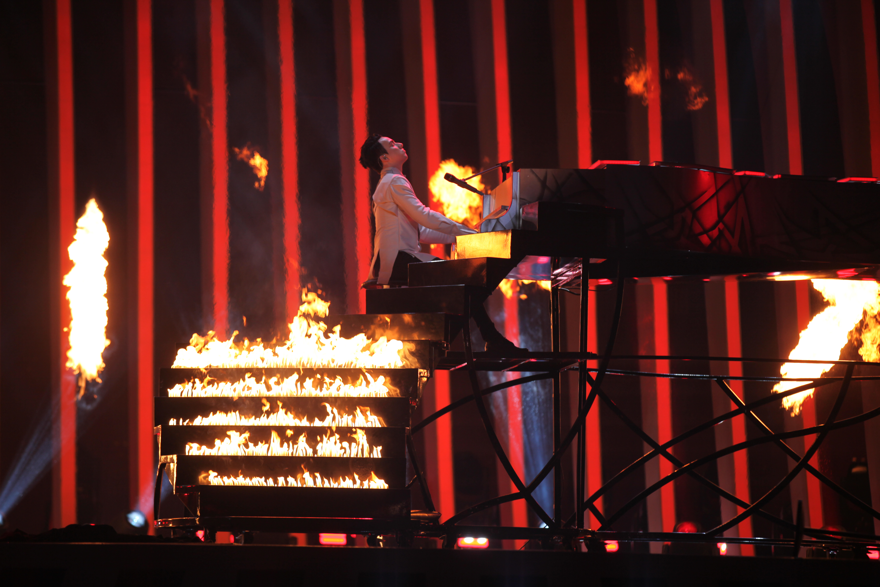 MELOVIN representing Ukraine with the song "Under the Ladder" during a rehearsal before the second semi final of the Eurovision Song Contest 2018 in Lisbon.